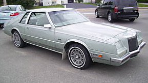 1981 Imperial personal luxury coupe